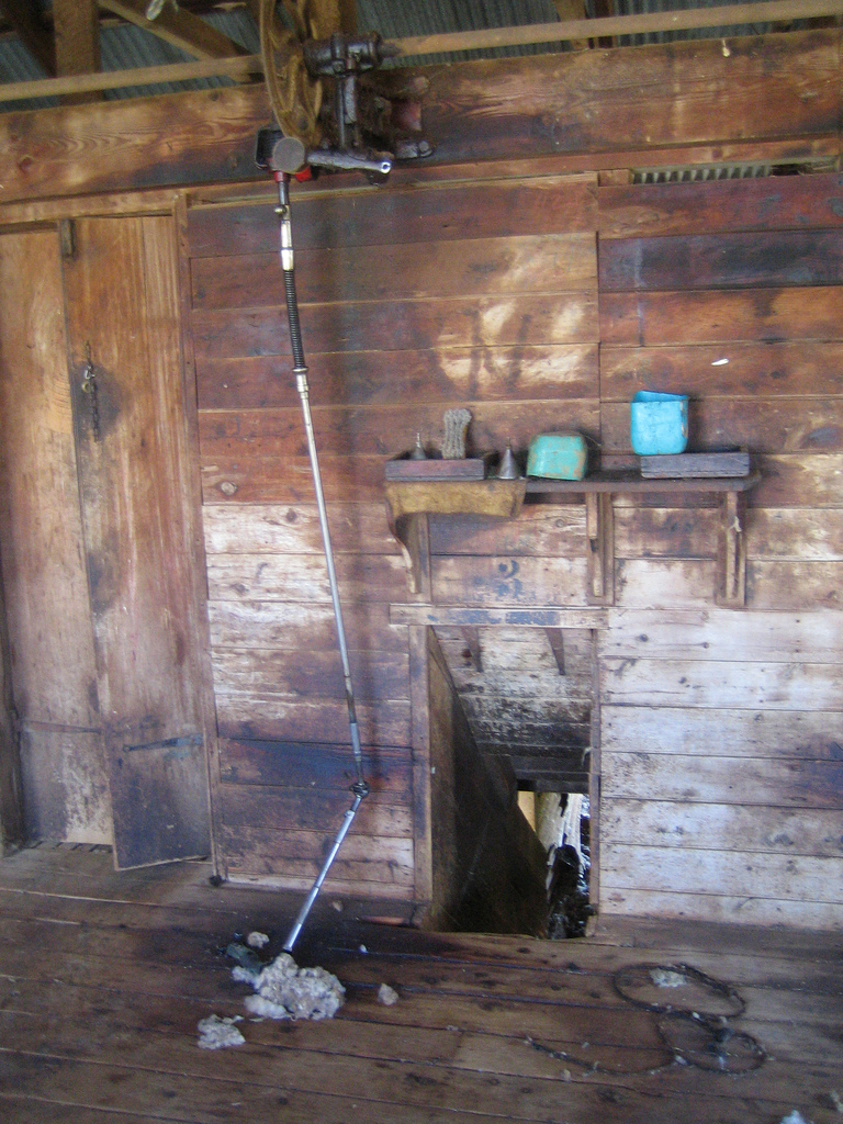 Sheep shearing machine driven by the shaft running along the top of the wall, oil can and reserve with other essential equipment ready out of harm's way by the shearer's shoulder. Shorn sheep goes down the chute. Next sheep ready to be fetched from behind the doors to the left.